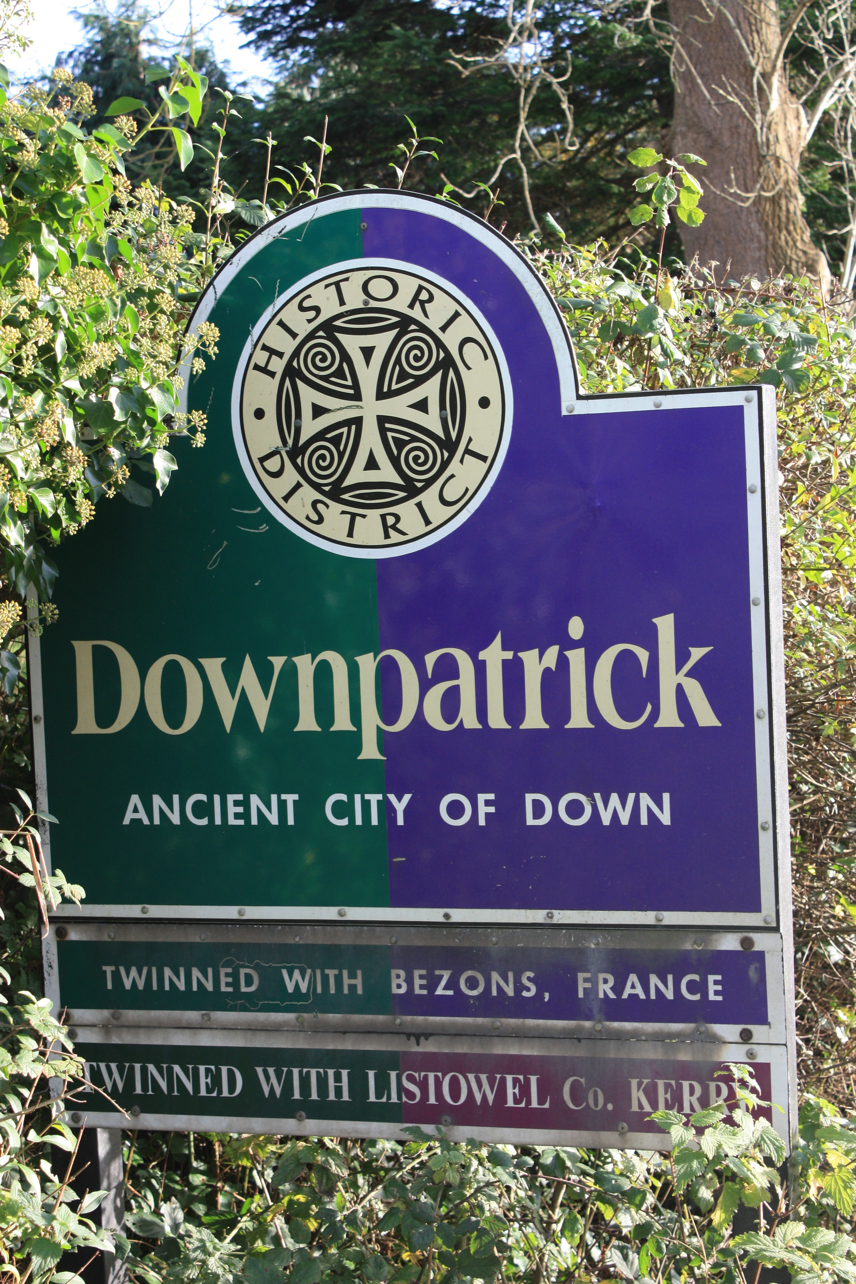 Downpatrick road sign, Strangford Road, Downpatrick, County Down, Northern Ireland, October 2009